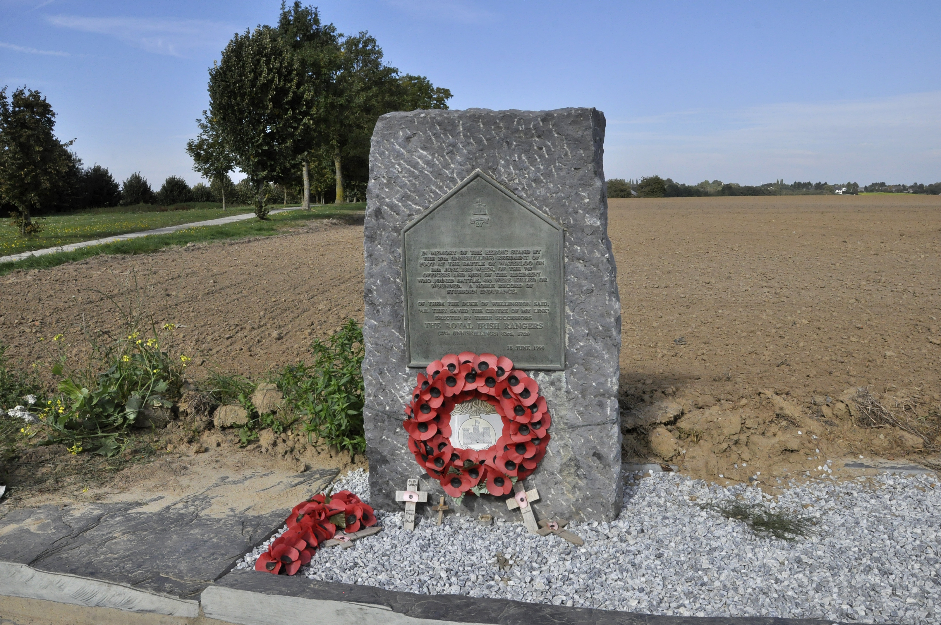 Stele to the 27th (Inniskilling) Regiment of Foot at Waterloo, Belgium